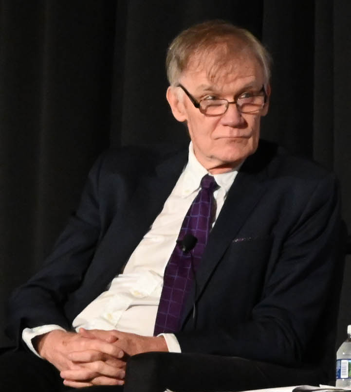 Andrea Barnet speaks on the Changemakers panel with David W. Blight, Andrew Roberts, and moderator Kai Bird at the National Book Festival, August 31, 2019. Photo by David Critics/Library of Congress. Note: Privacy and publicity rights for individuals depicted may apply.